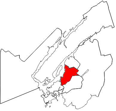 The riding of Rothesay in relation to other electoral districts in Greater Saint John.